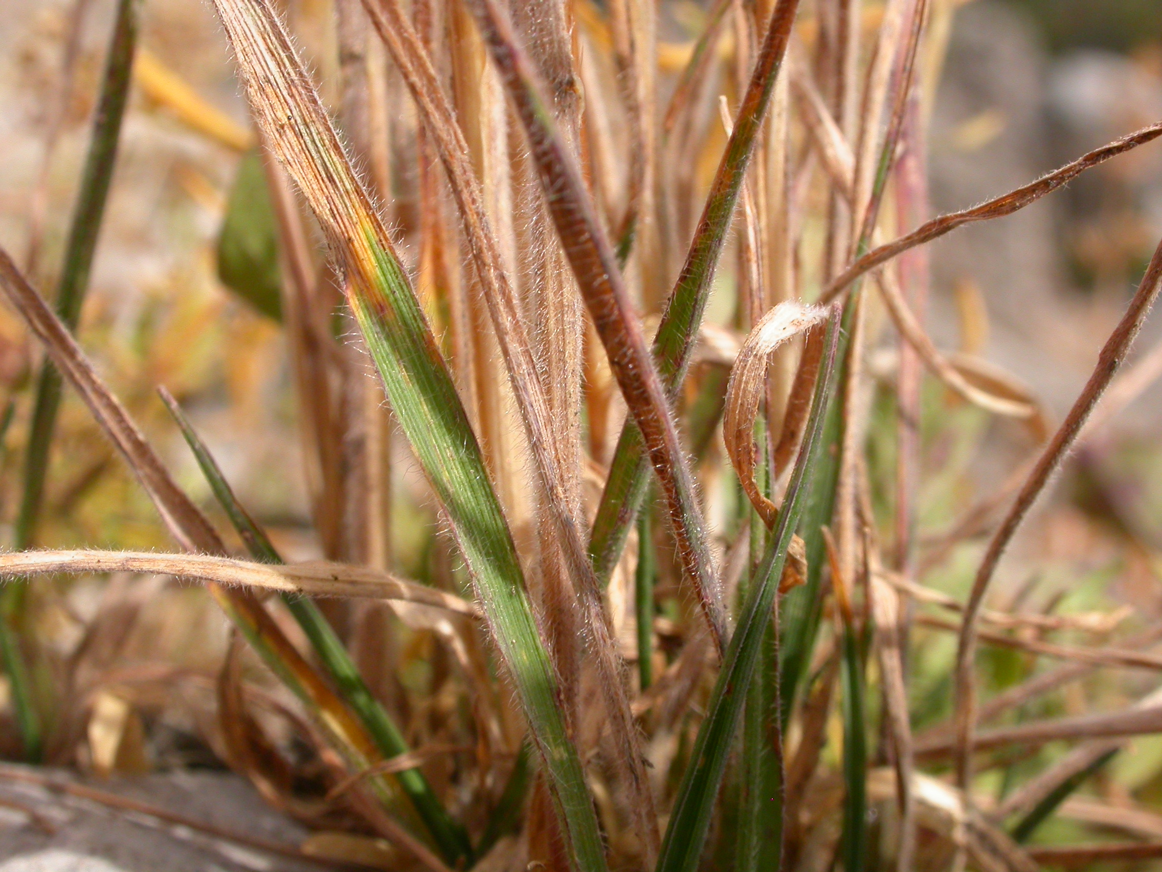 Trisetum spicatum (L.) K.Richt. - spike trisetum: "The leaf sheaths and blades are velvety hairy."